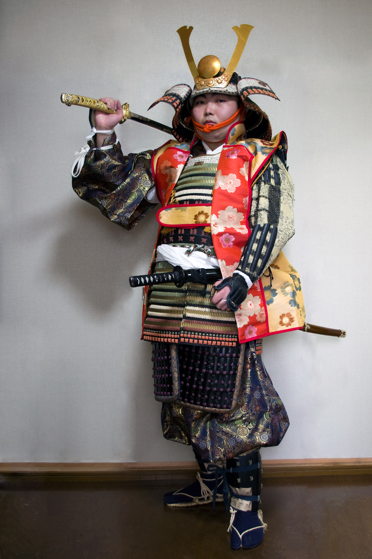 A Samurai Commander with Jin-baori